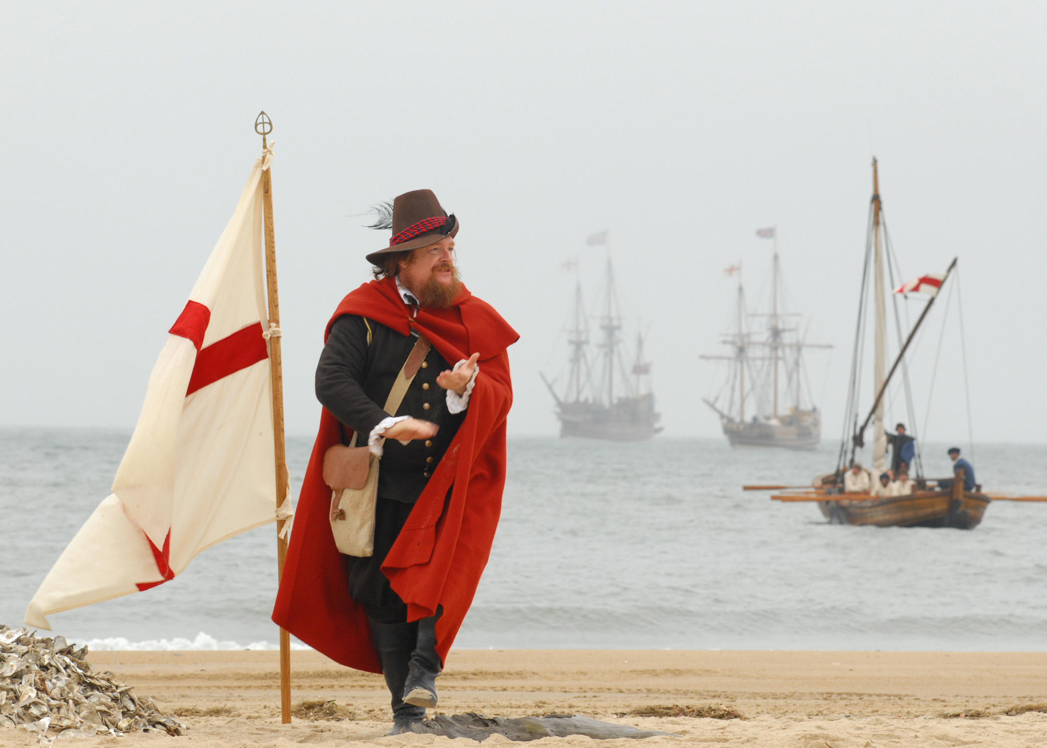 VIRGINIA BEACH, Va. (April 26, 2007) - John Smith, played by Dennis Farmer, claims the beach for England during a re-enactment ceremony on the 400th anniversary of the First Landing in the, "New World." Settlers from the ships the Godspeed, Discovery and the Susan Constant landed in Virginia Beach and stayed four days before transiting to Jamestown. U.S. Navy photo by Mass Communication Specialist Seaman Matthew Bookwalter (RELEASED)